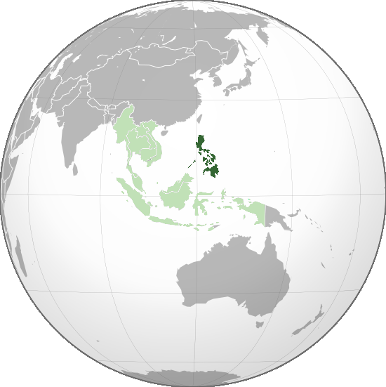 Philippines in ASIA/